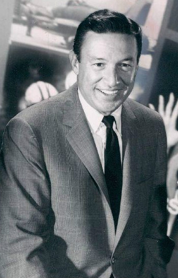 Publicity photo of Mike Wallace (and Harry Reasoner) from the premiere of 60 Minutes.